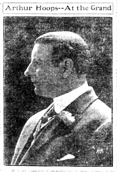 Newspaper photo of actor Arthur Hoops. Cropped and contrast adjusted with gimp.